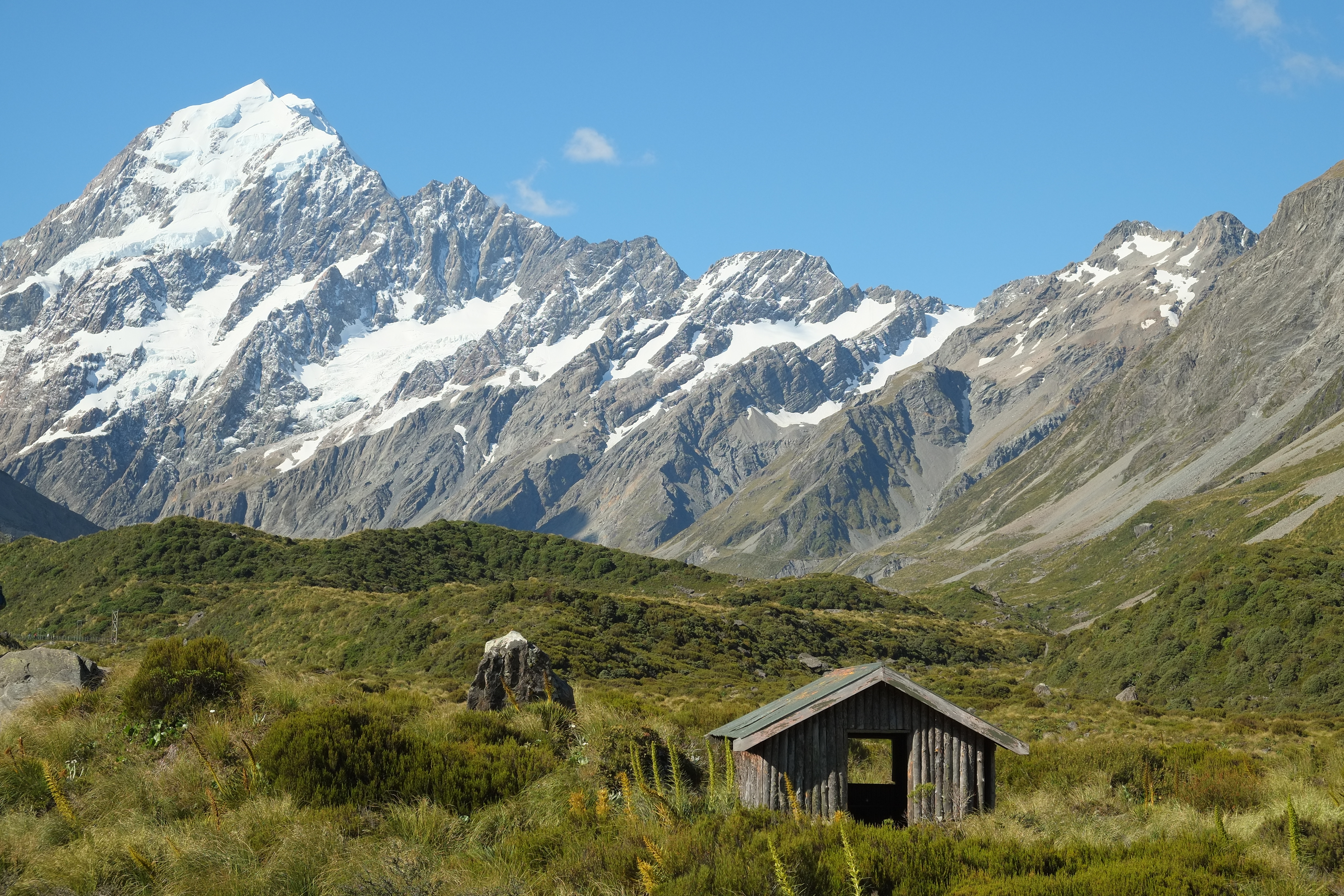 Stocking Stream Shelter in Hooker Valley in front of Aoraki / Mount Cook Range